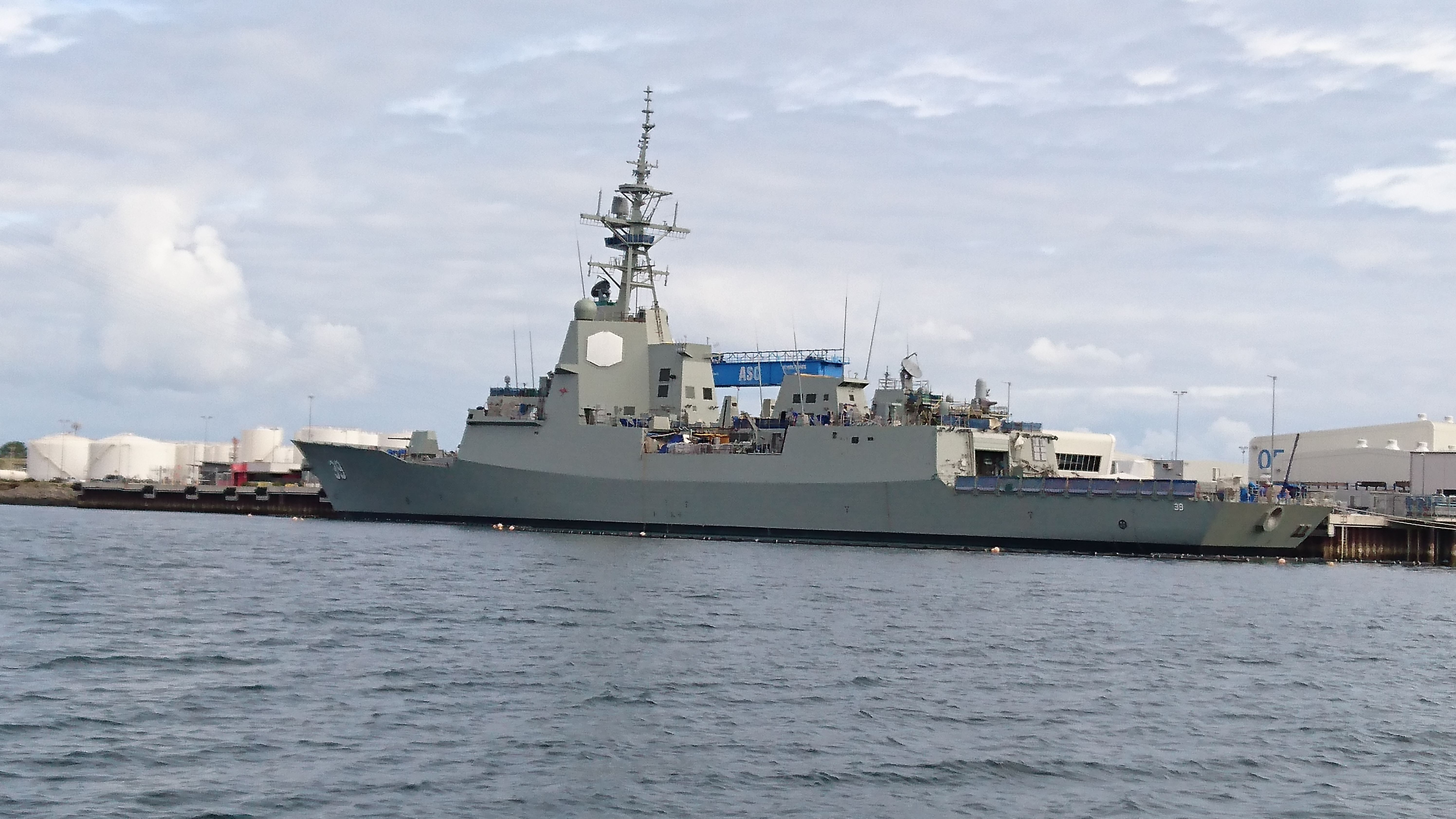 Another lower-quality shot of HMAS Hobart alongside at ASC Osborne.